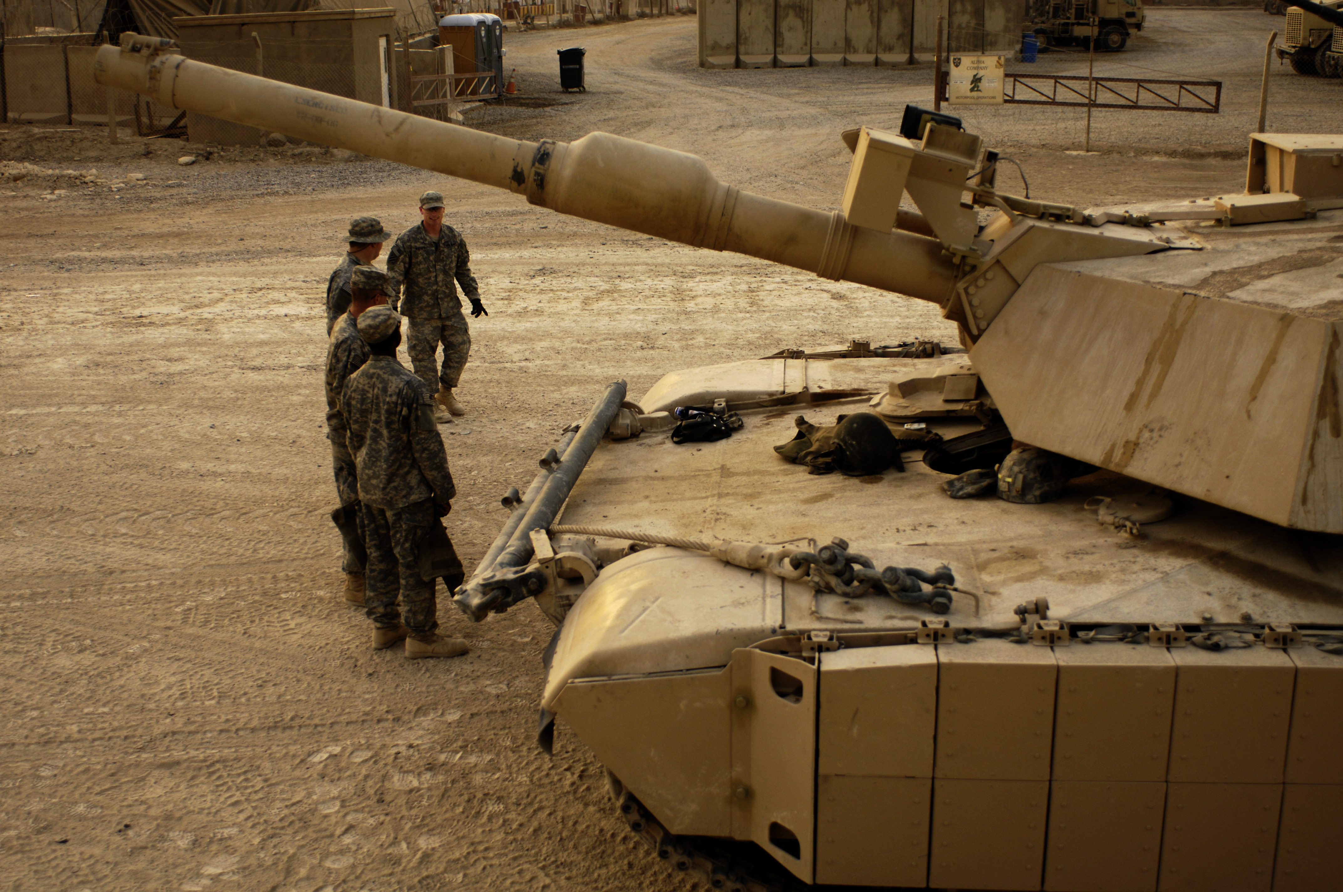 U.S. Army Soldiers assigned to 1st Platoon, Delta Company, 2nd Combined Arms Battalion, 69th Armor Regiment prepare an M1A1 Abrams heavy tank with an Abrams Integrated Management System and the new Tank Urban Survivability Kit for a patrol on Main Supply Route Pluto and Brewers near Forward Operating Base Rustamiyah in Baghdad, Iraq, Nov. 28, 2007.